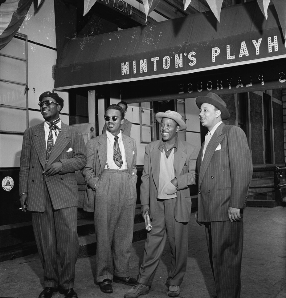 Thelonious Monk, Howard McGhee, Roy Eldridge, and Teddy Hill, Minton's Playhouse, New York, N.Y., ca. Sept. 1947 (Photograph by William P. Gottlieb)